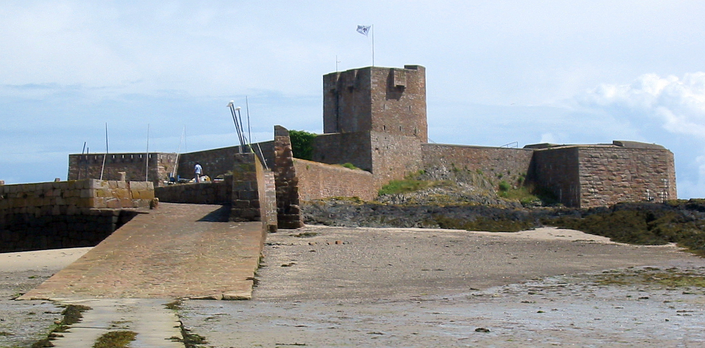 Saint Aubin's Fort, Saint Brelade, Jersey, 24 July 2009